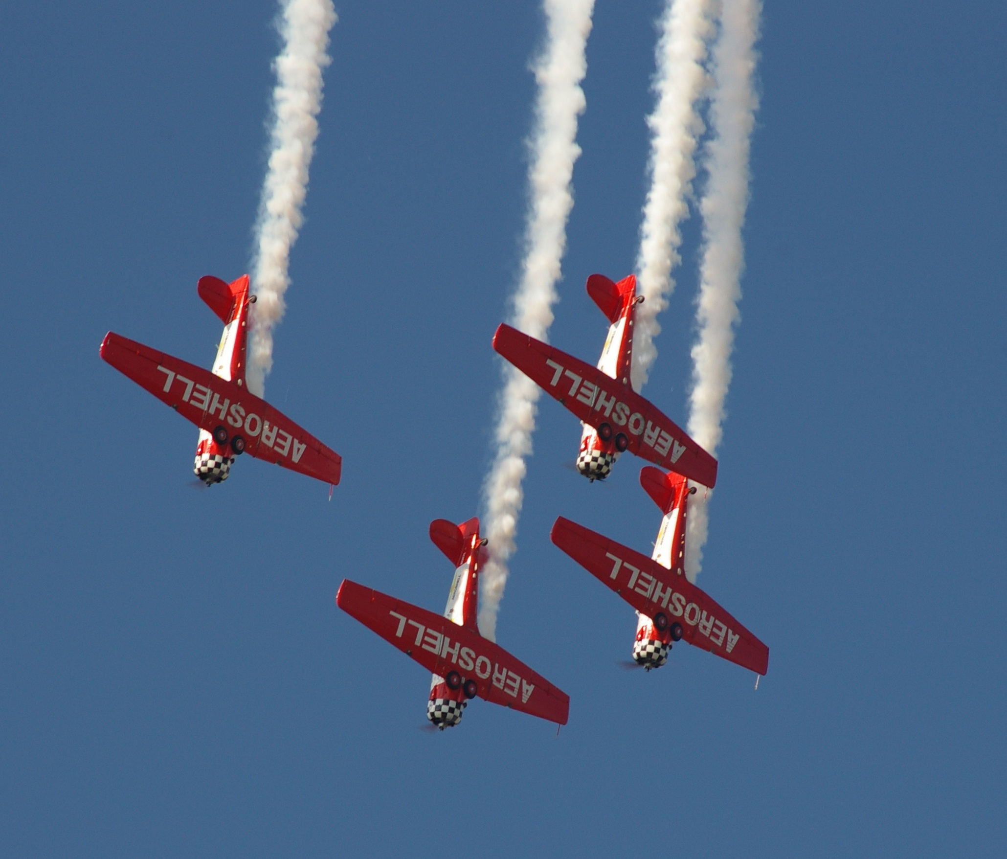 Aeroshell Team Demonstration, Airventure 2007.